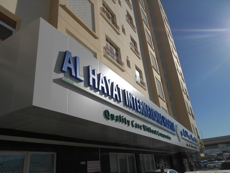 Al Hayat International Hospital, Situated in Al Ghubra As Seen From Outside